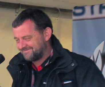 Minardi F1 team boss Paul Stoddart. Photograph taken Saturday 5th March 2005 at the 2005 Australian Grand Prix.